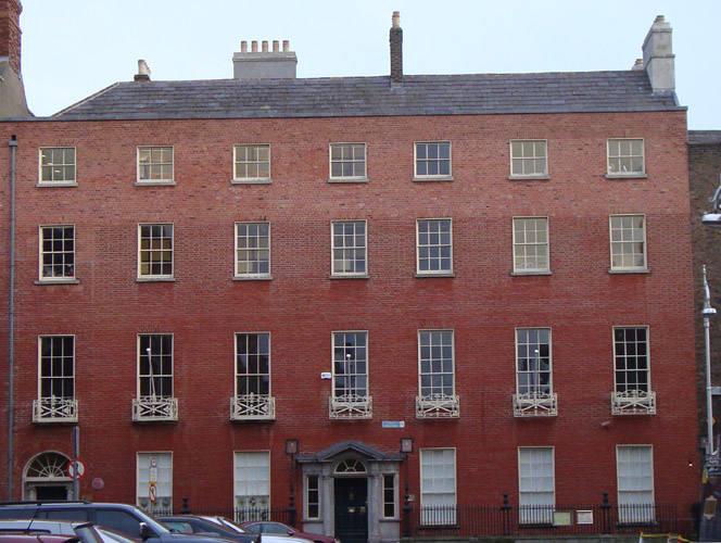 Photograph of Ely House, 8 Ely Place, Dublin, Ireland. Taken by me 20 January 2009.